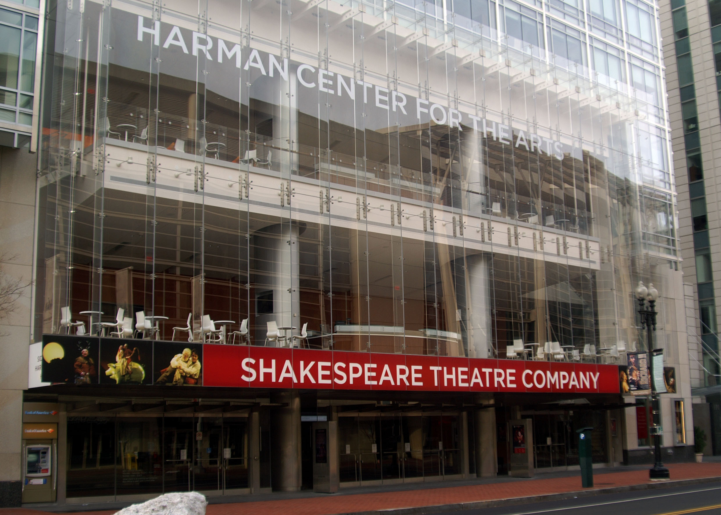 Harmon Center for the Arts Sidney Harman Hall 610 F Street NW, Washington, DC